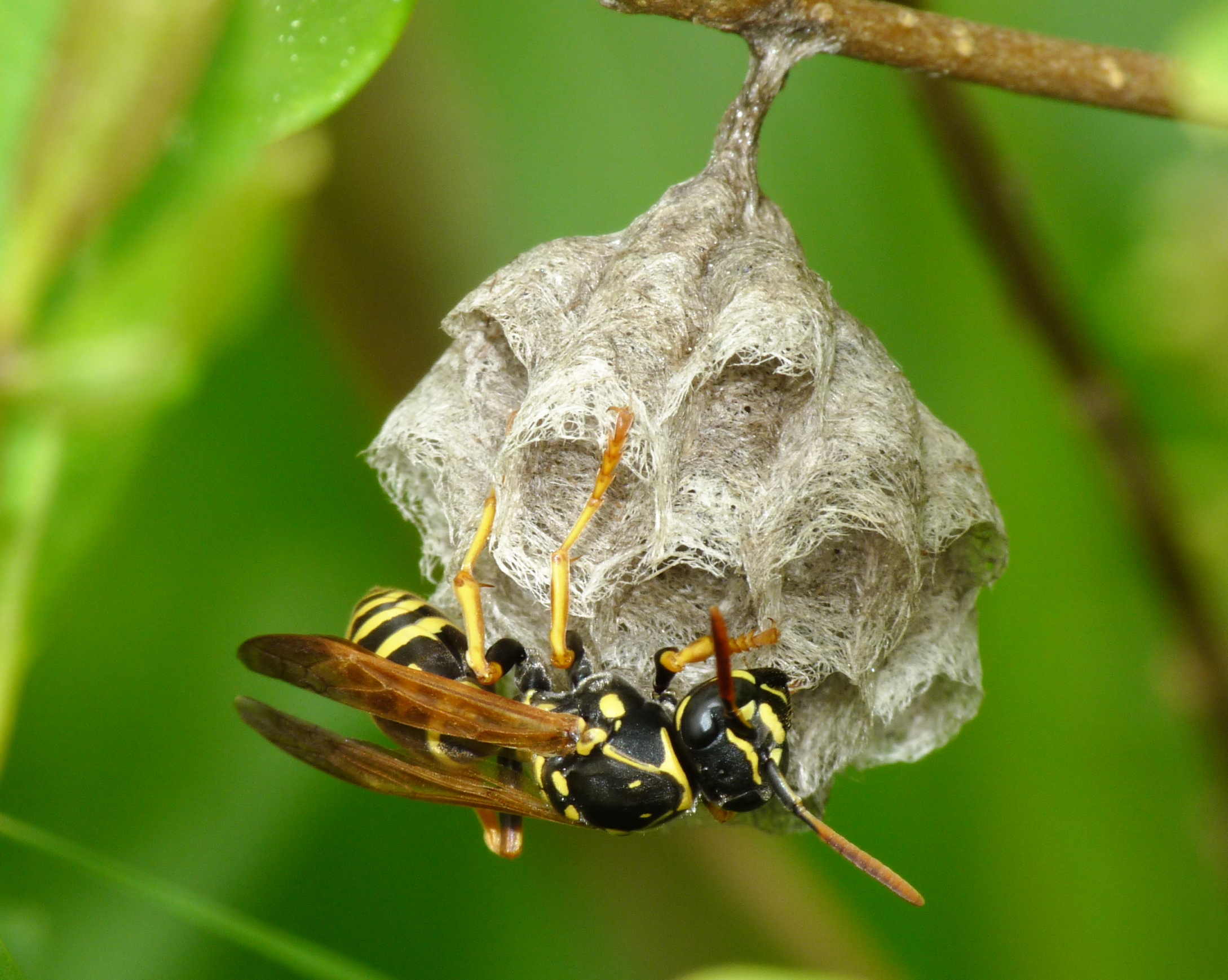 Polistes nympha, female - Livorno, Tuscany, Italy